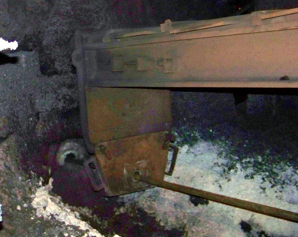 Taphole drill.